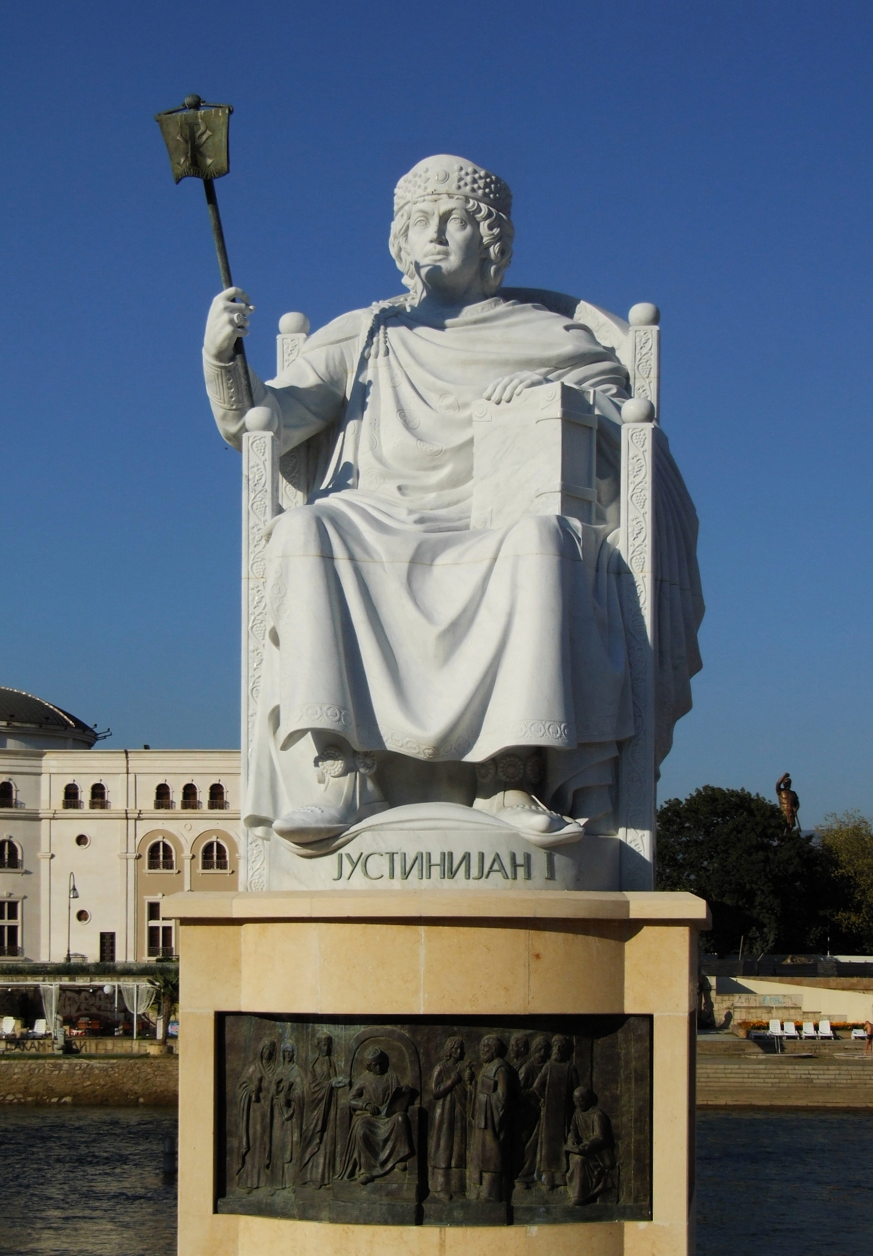 Monument of Iustinianus I, Skopje, North Macedonia